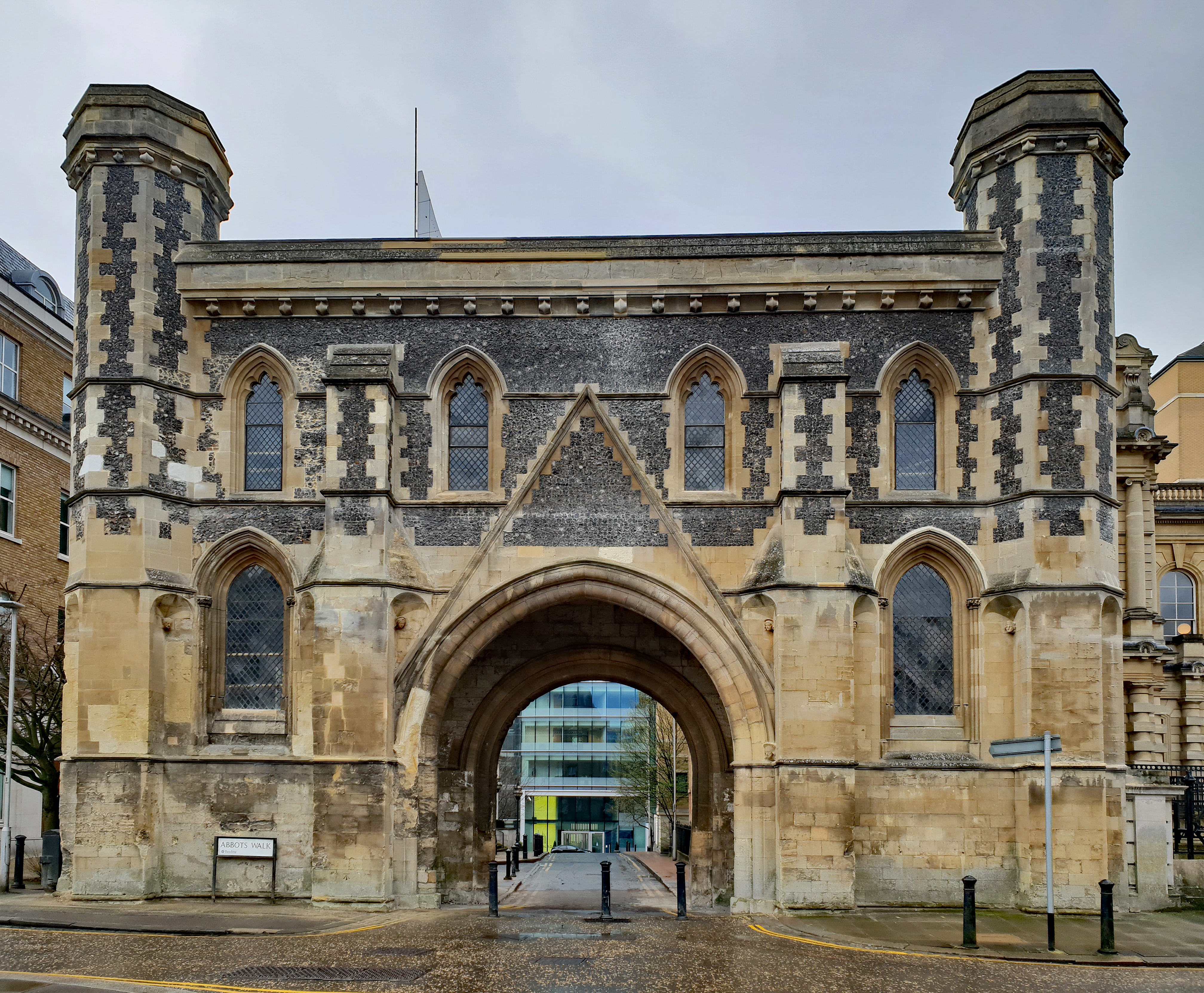 After some years, the old gateway to Reading Abbey has now been restored, and can be seen without its wrapping of hoardings.